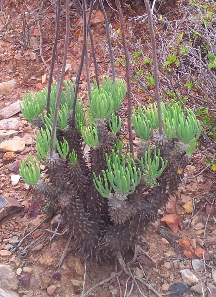 Tylecodon wallichii - Montagu south africa